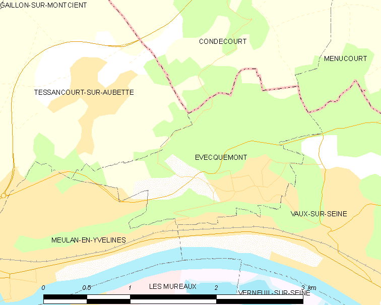 Map of French municipality Évecquemont